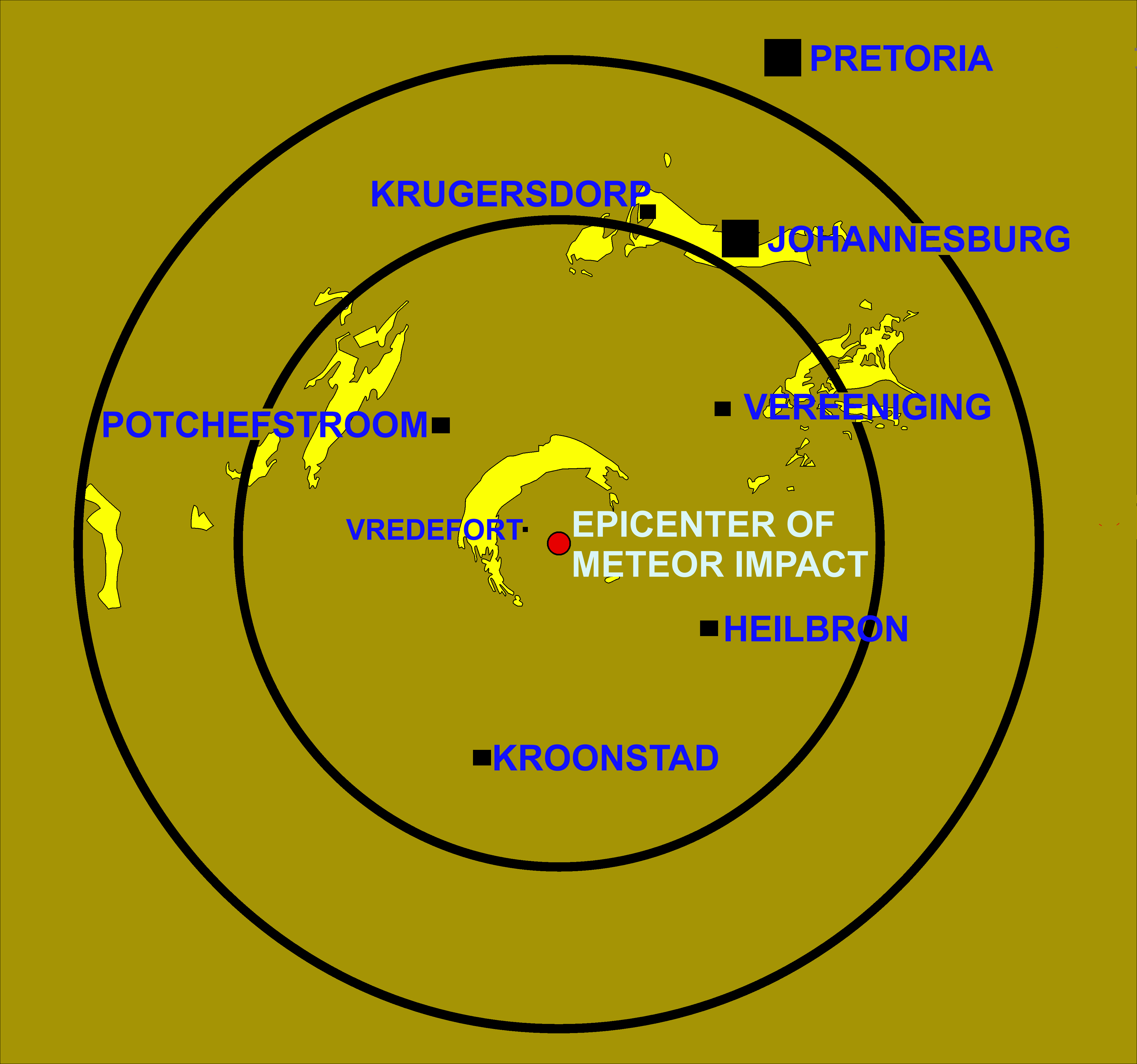 A map of the 2020 million year old Vredefort meteor impact crater, and its relation to the outcrops of Witwatersrand outcrops